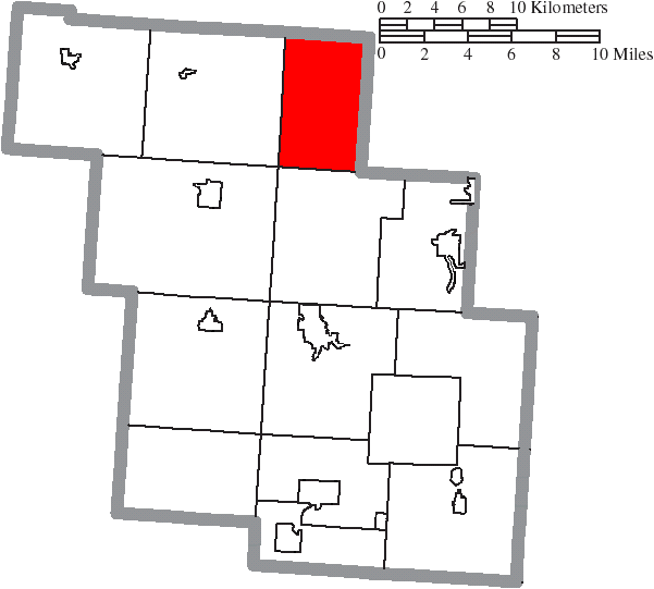 Map of the municipal and township boundaries of Perry County, Ohio, United States, as of the 2000 census, with the location of Madison Township highlighted. Township borders are shown only in unincorporated areas in order to differentiate incorporated and unincorporated areas more clearly.